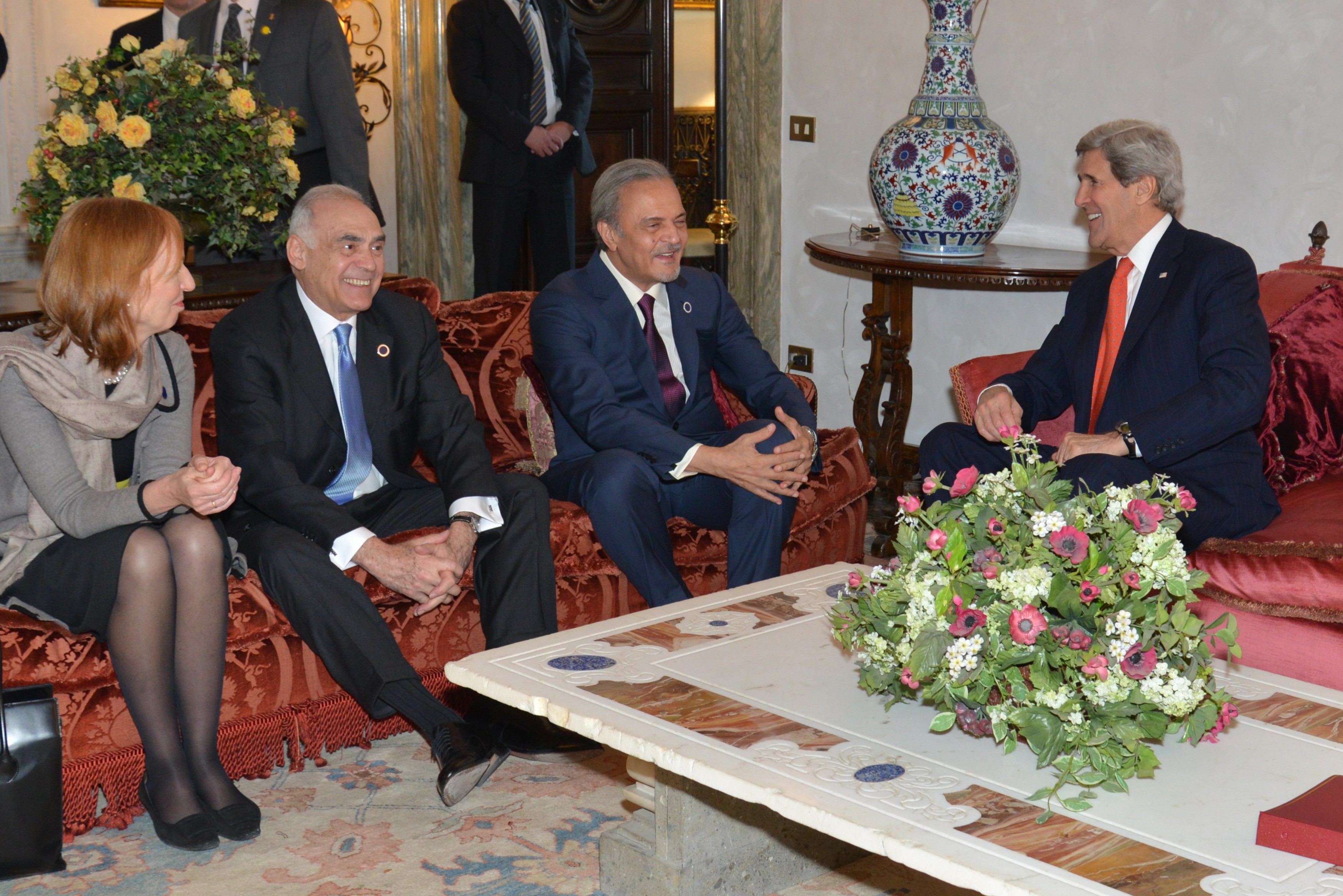 U.S. Secretary of State John Kerry speaks with Saudi Foreign Minister Prince Saud al-Faisal, Egyptian Foreign Minister Mohamed Kamel Amrin, and a representative of the German Foreign Ministry in Rome, Italy, on February 28, 2013. [State Department photo/ Public Domain]